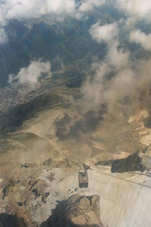 Descending the Aiguille du Midi Téléphérique into Chamonix. Photo by Fawcett5